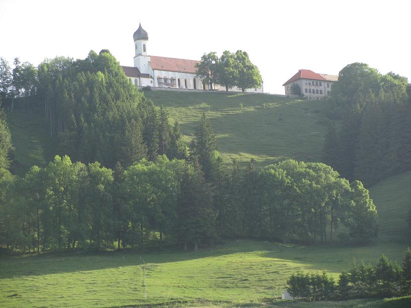 Hohenpeissenberg: The pilgrimage church of the Assumption and old school